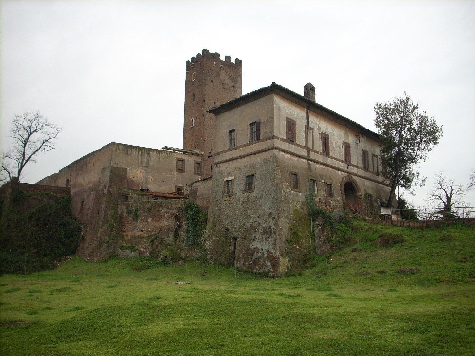 Antimalarial station "Casale della Cervelletta"